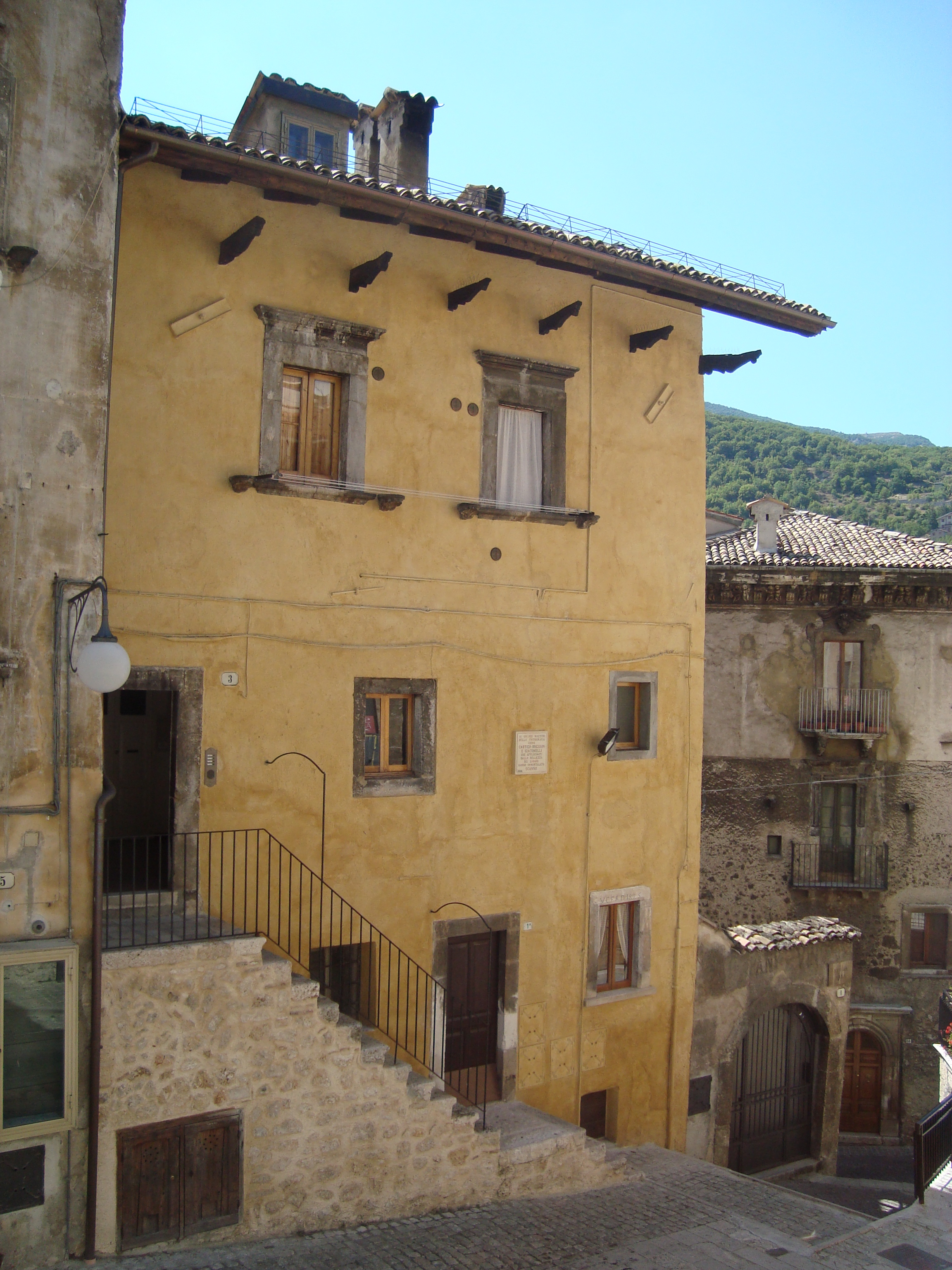 The House Cartier-Bresson in Scanno, Abruzzo, Italy